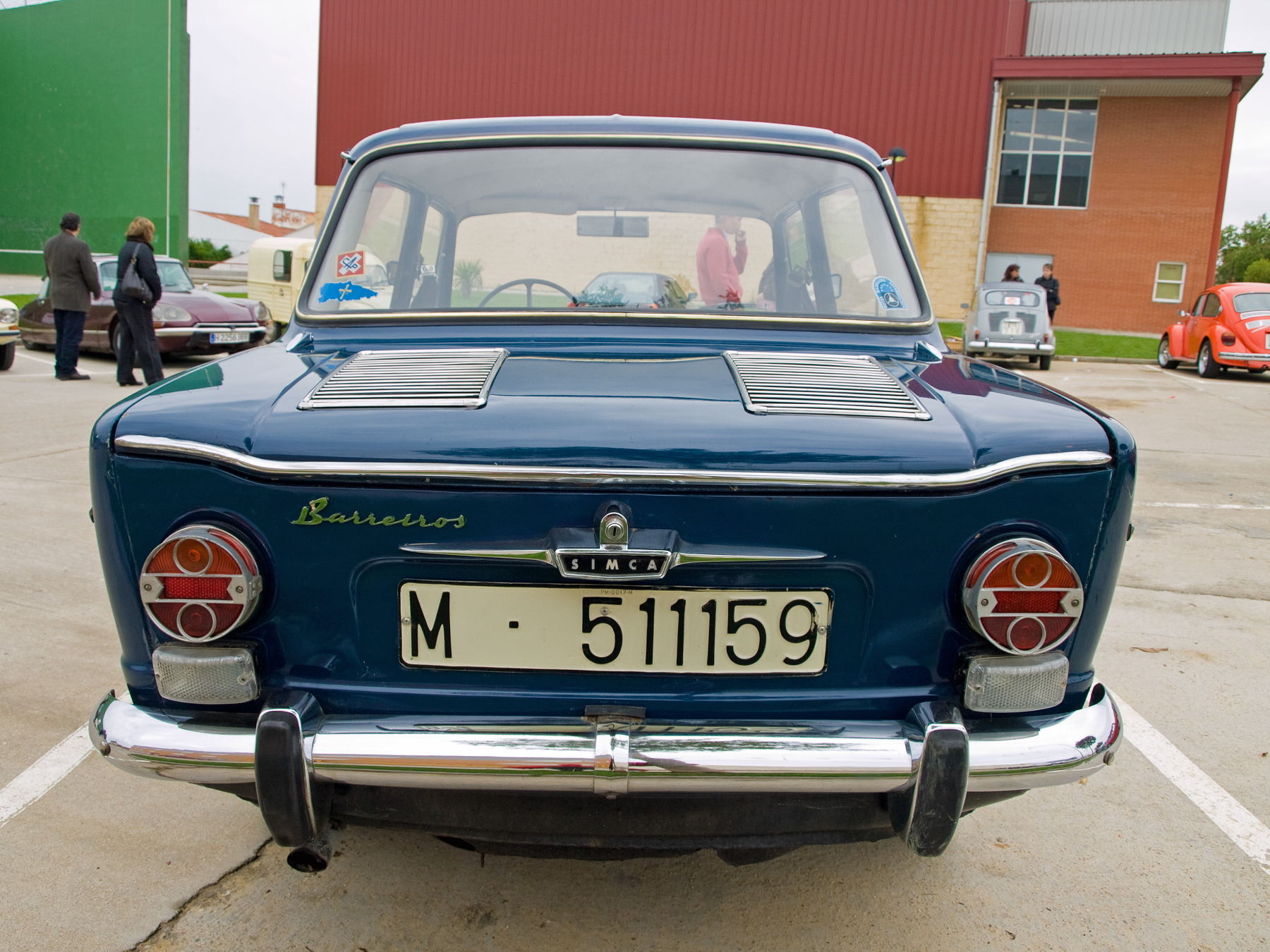 Rear sight of a Simca 1000, a car of french origin; this one was produced in Spain by Barreiros